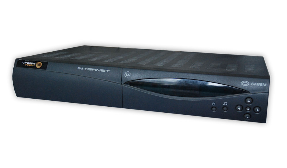 Front panel of Sagem ISD 4285@ DVB decoder